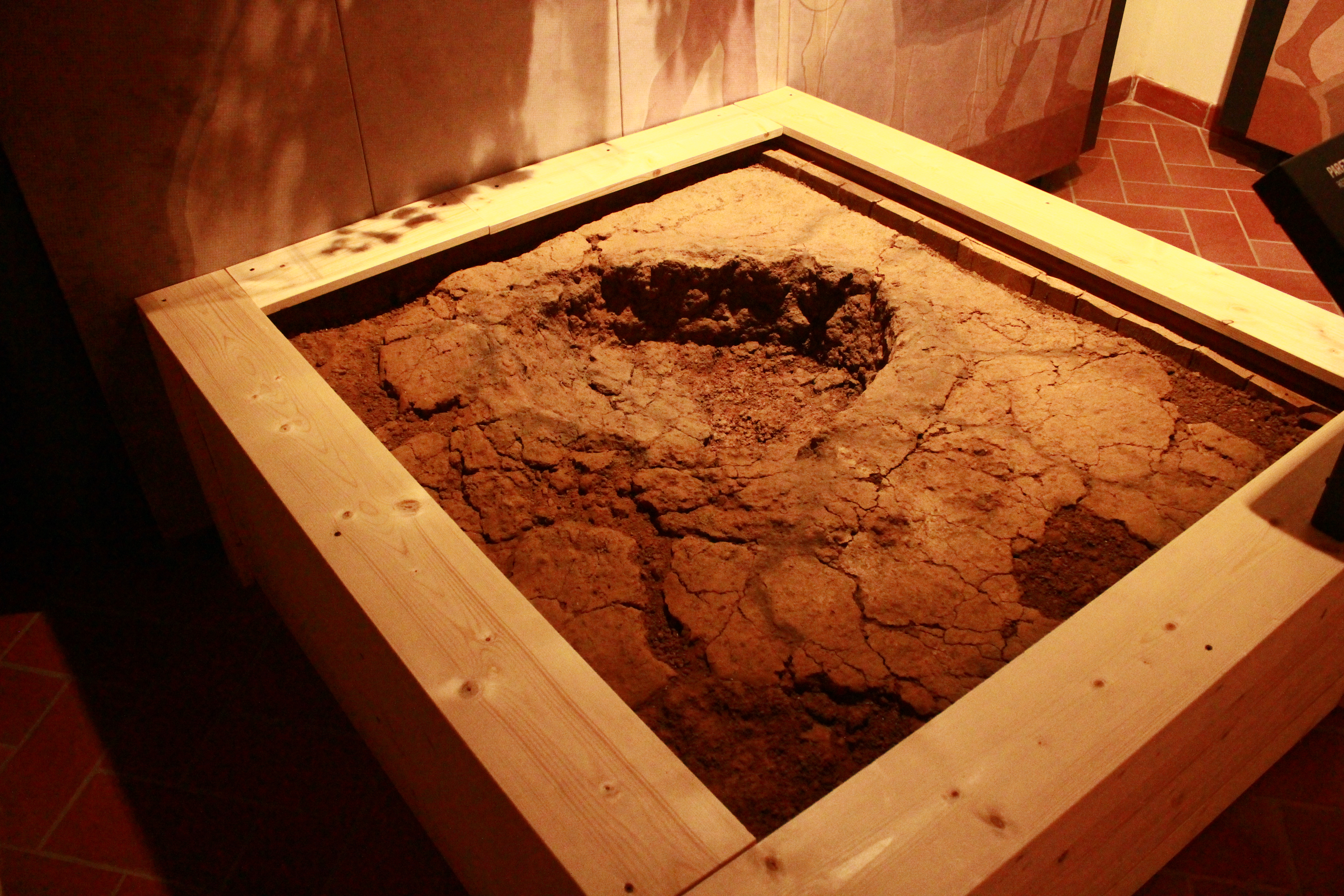 MAGMA Follonica